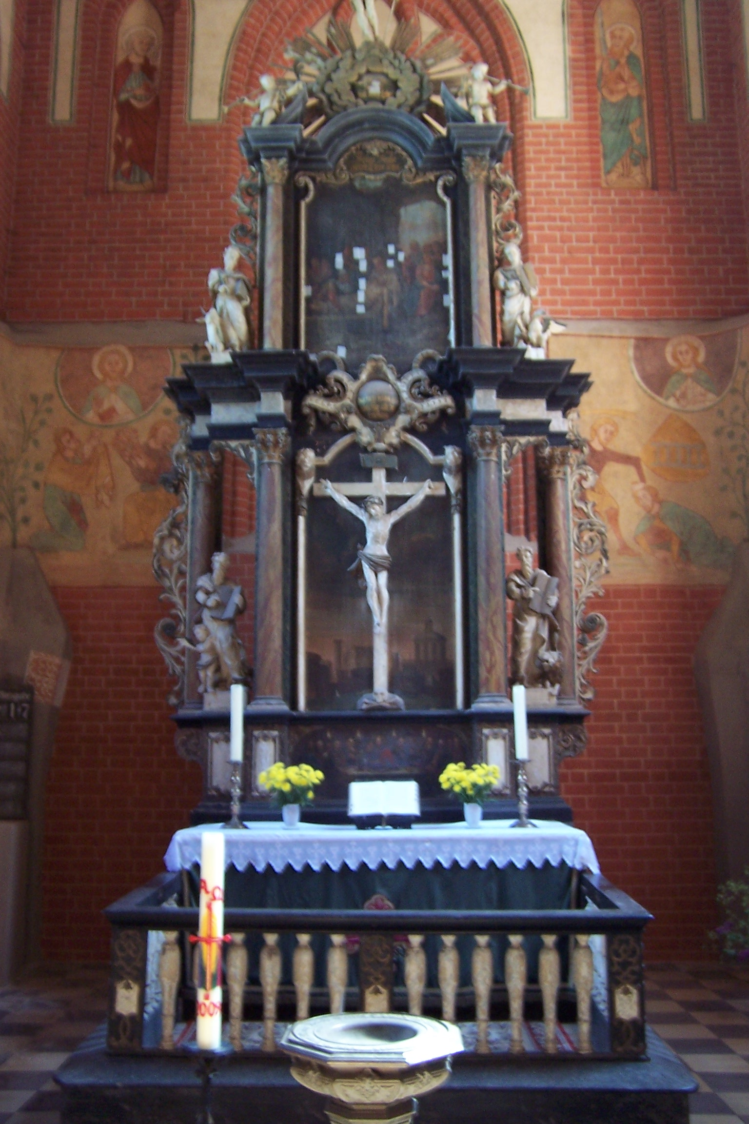 Altar, Zarrentin am Schaalsee